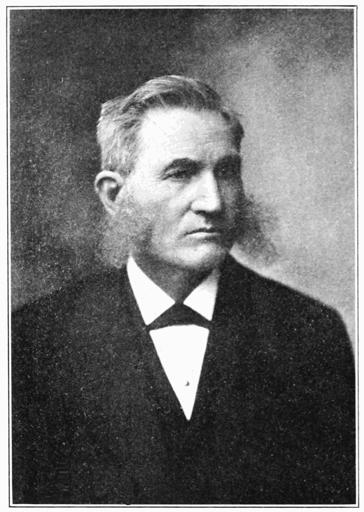 Lester Frank Ward